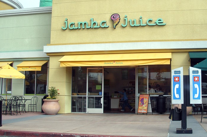 A Jamba Juice smoothie store in Santa Clara.